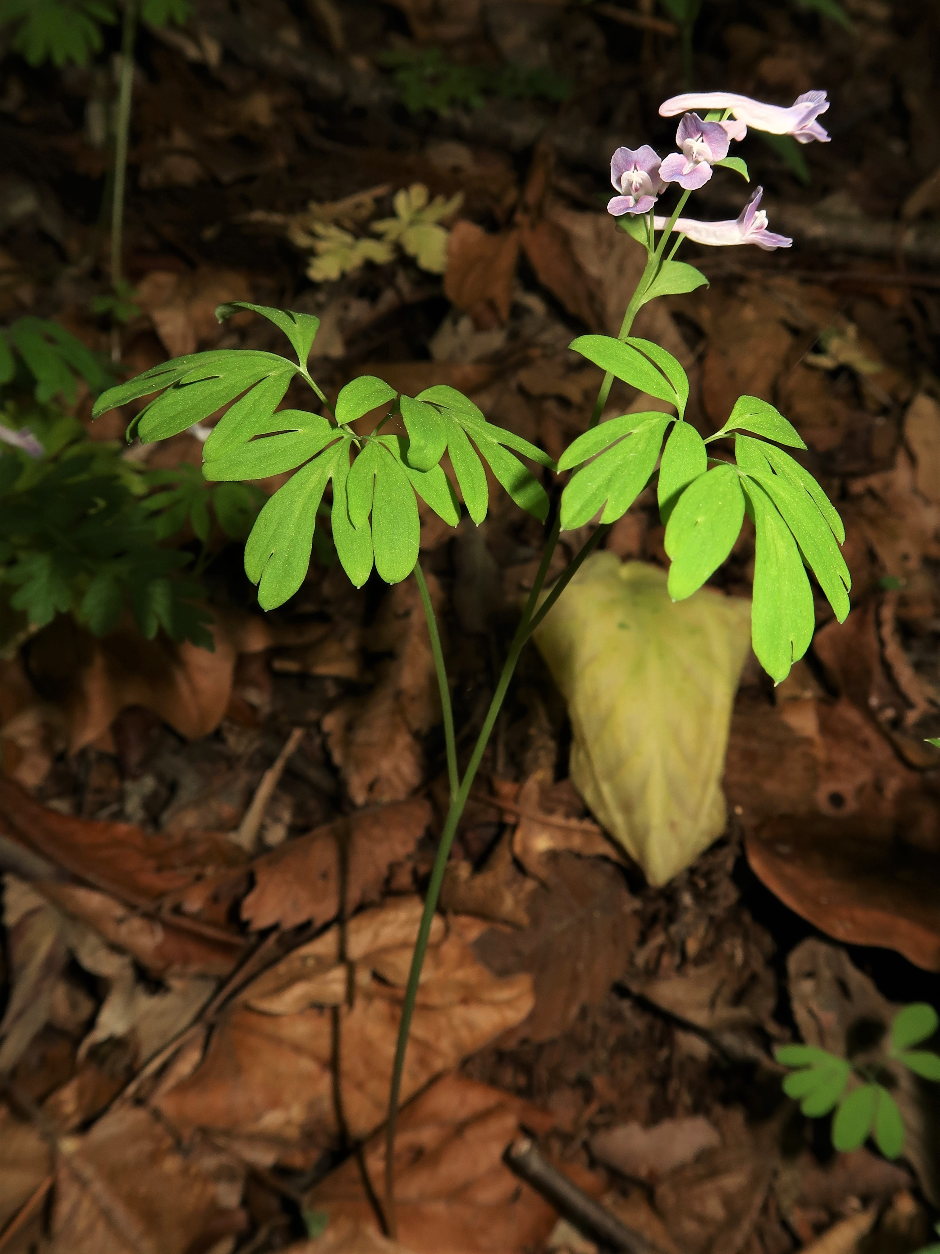 Corydalis decumbens, north area, Tochigi pref., Japan